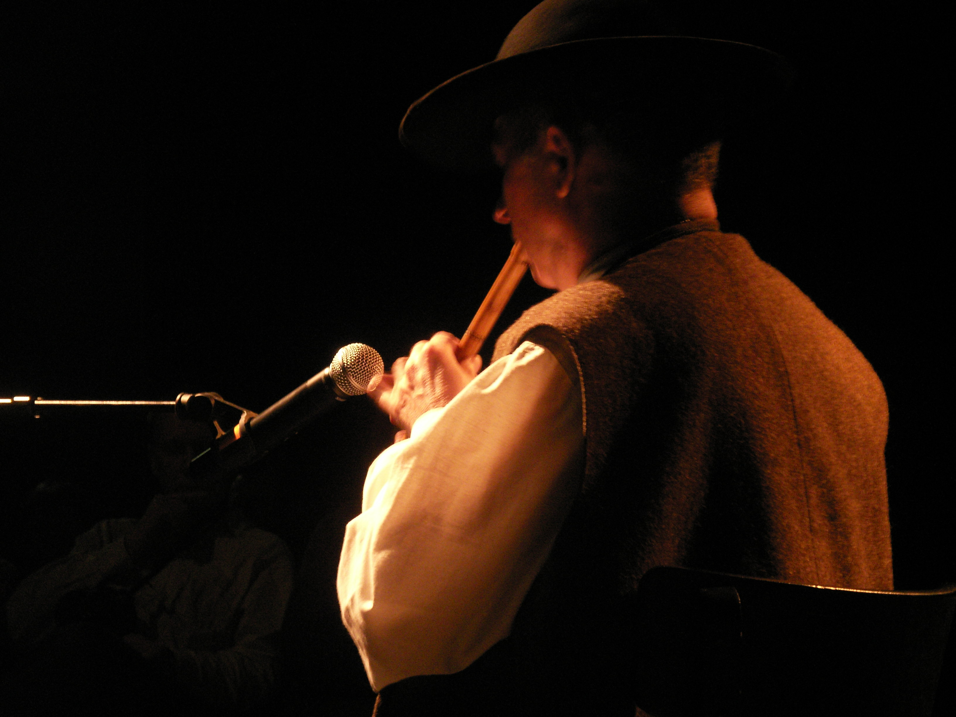 Folkmusican Grigore Lese from Maramureş County / Transylvania in Romania / EU.